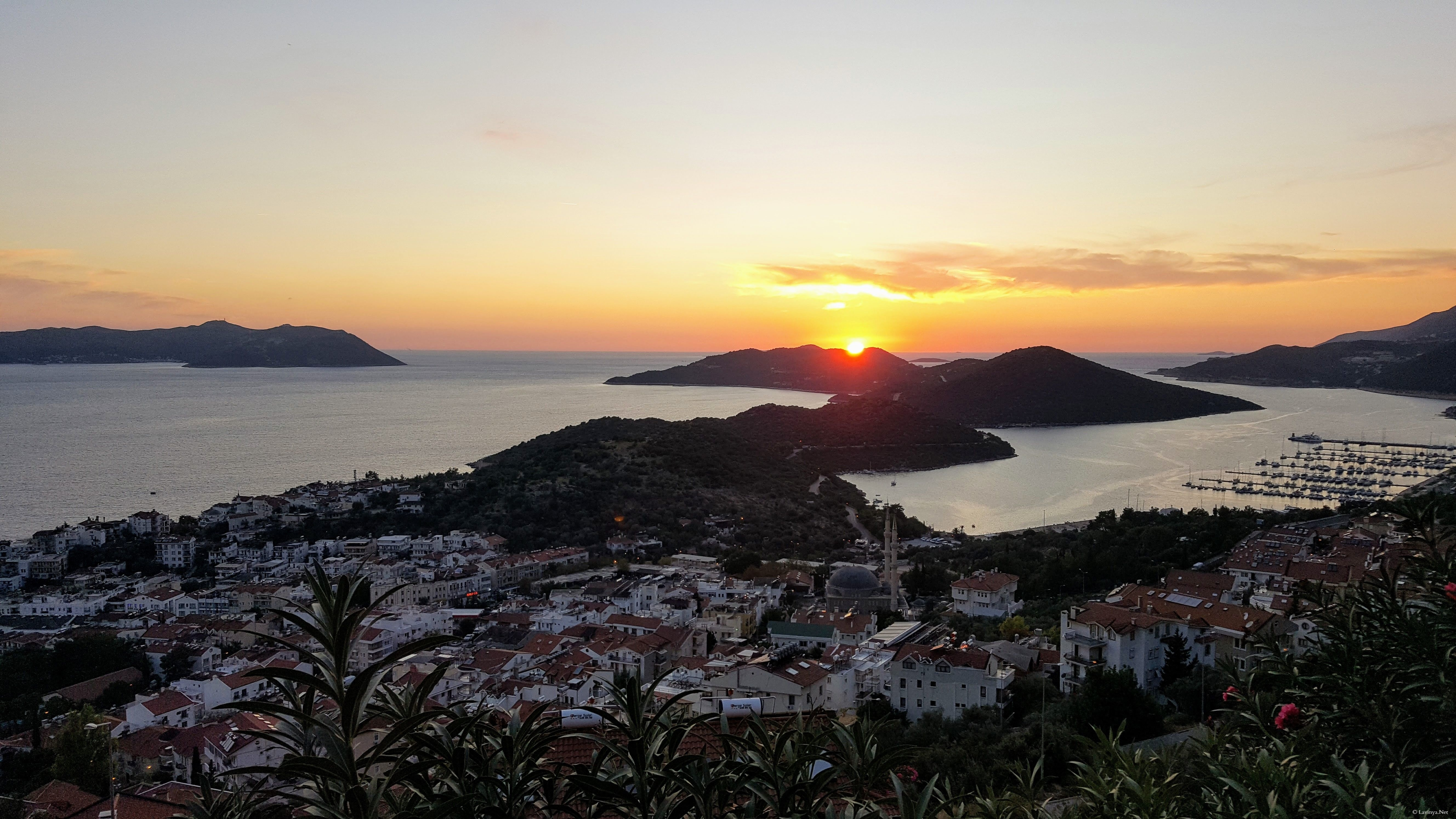 An afternoon / sunset view in Kas district. November 2017.